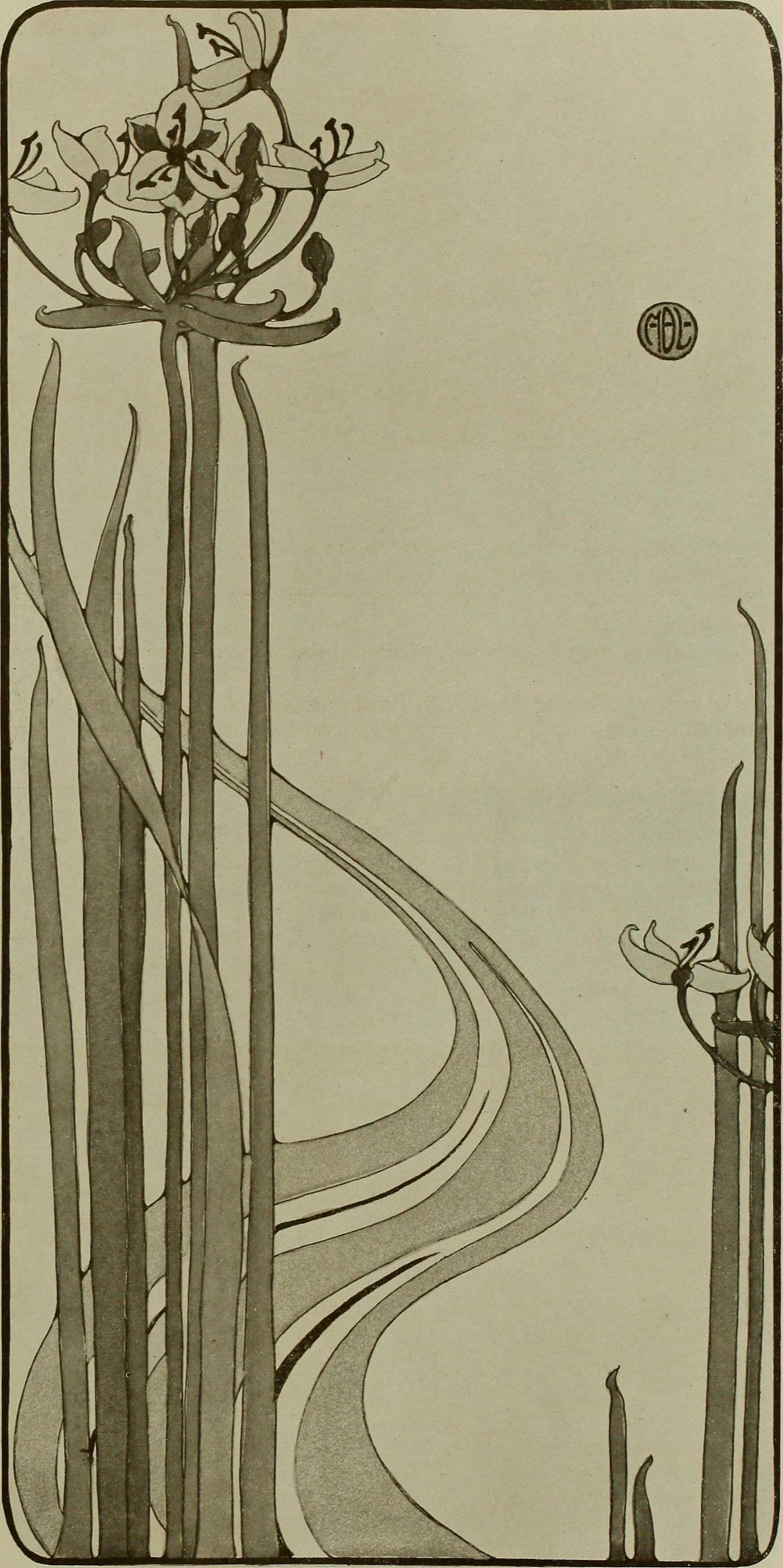 Title: Keramic studio Year: 1899 (1890s) Authors: Leonard, Anna B Robineau, Adelaide Alsop, 1865?-1929 Subjects: Pottery Decoration and ornament Publisher: Syracuse, N.Y. (etc.) : Keramic Studio Publishing Co Text Appearing Before Image: blue andgold bands, but so exquisitely done that thisornament was quite sufficient to balancethe inside decoration. Mrs. Jack had apleasing service plate decorated with a goldgeometrical ornament that formed a largenumber of openings for flowers in which shearranged the same group, in four differentcolors. Mrs. Hubbard had a chocolate potin browns and red enamel that was uniquein arrangement of design and well executed.She also showed a very pretty little bon bonplate in red and gold. Miss Helga M.Peterson exhibited a chocolate pot withsugar and creamer, showing a fine concep-tion of the division and balance of ornamenton pieces that are broken by handles andnoses. The geometrical forms were welldrawn and the floral parts were artisticallyadapted to the enclosures of the decorationand the form of the china. Altogether, itwas an extremely successful grouping. Mrs.F. A. Hanlon showed a chop platter of geo-m.etrical and floral ornament, which was avery clever arrangement of pink and pale Text Appearing After Image: FLOWERING RUSH—MARGARET D. LINDALE(Treatment page 194) 202 RERAMIC STUDIO